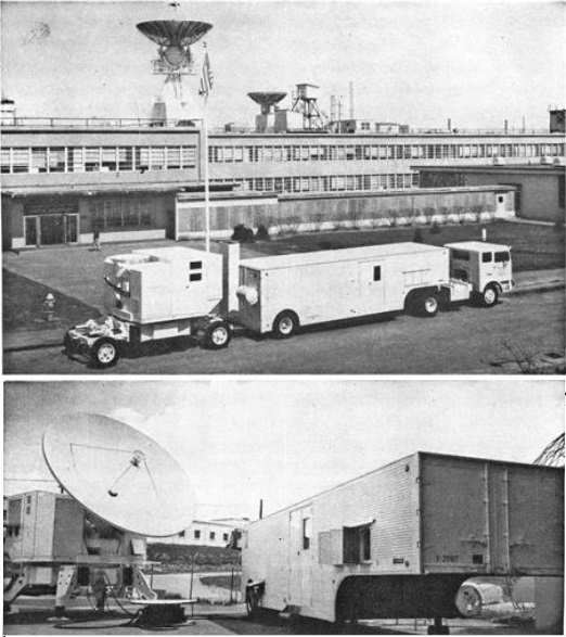 Lincoln Experimental Satellite ground communications equipment in travel and deployed modes.